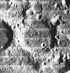 Crater Büsching